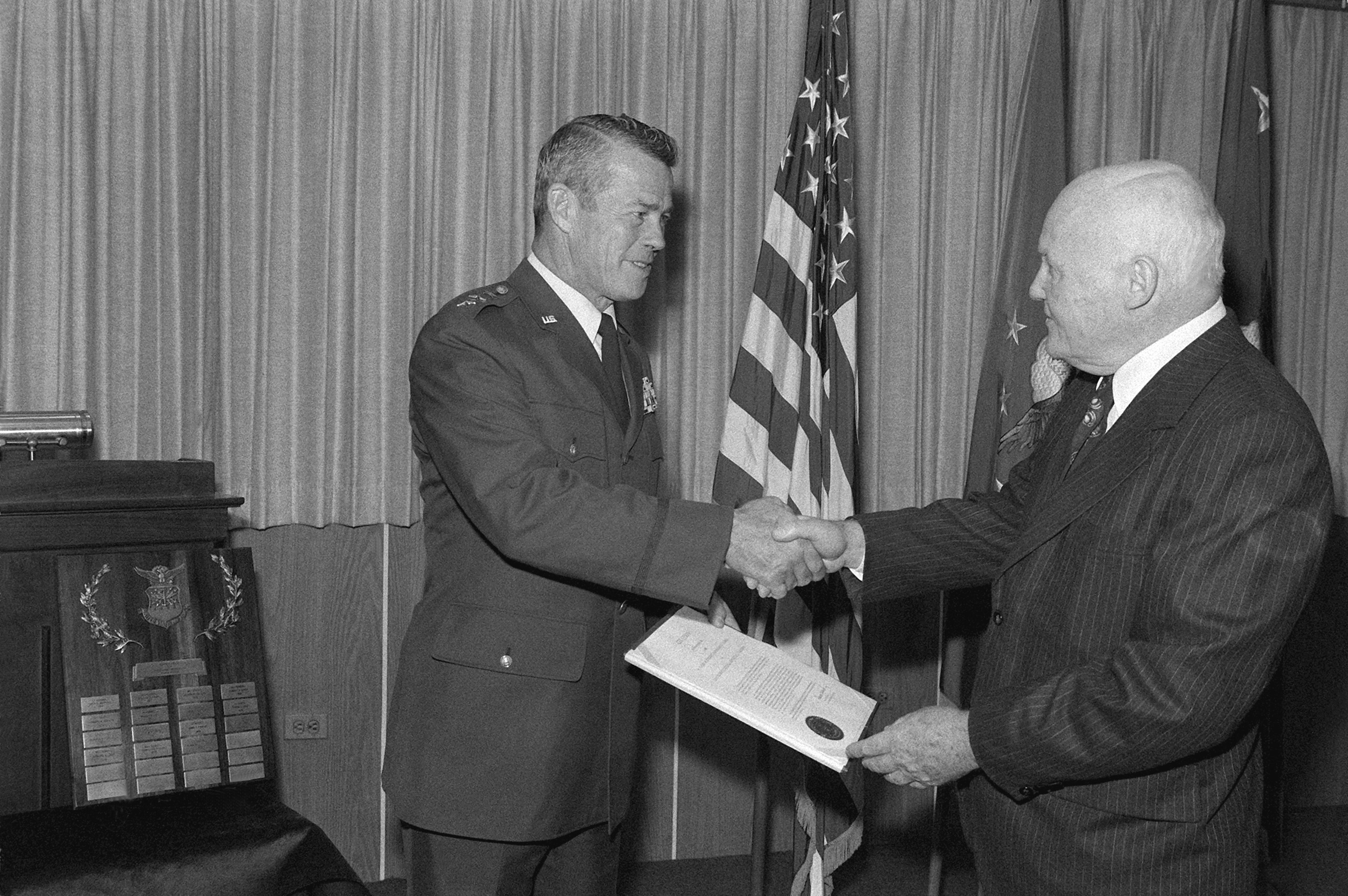 LGEN Kenneth L. Tallman, left, commander of the U.S. Air Force Academy, receives the Zuckert Award from former Secretary of the Air Force Eugene M. Zuckert during a ceremony at the Pentagon.